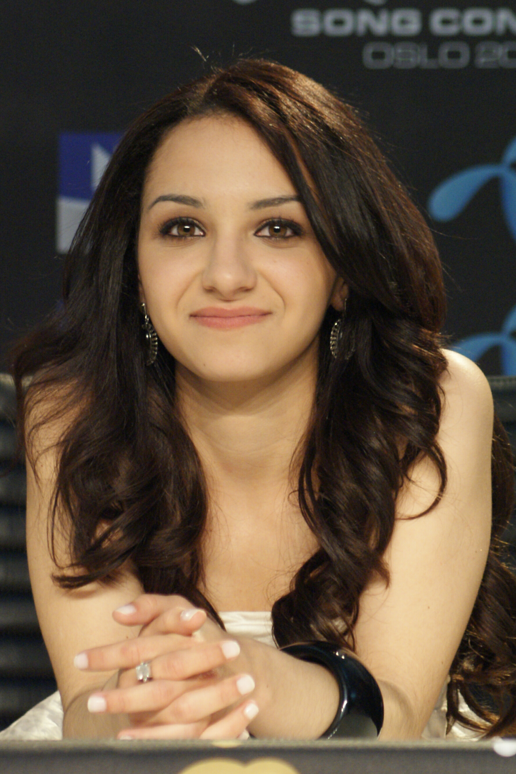 Filipa Azevedo at a press conference during Eurovision Song Contest 2010.